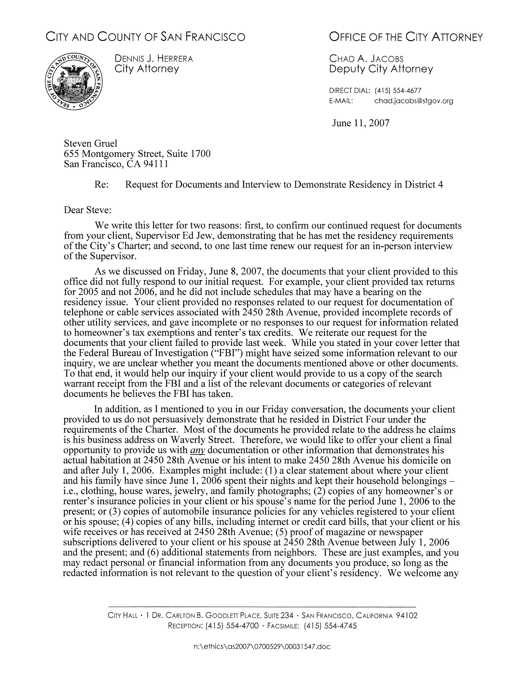 A letter sent by San Francisco City Attorney Dennis Herrera to embattled San Francisco District 4 Supervisor Ed Jew, demanding him to provide evidences regarding his residency. Posted by San Francisco Chronicle at